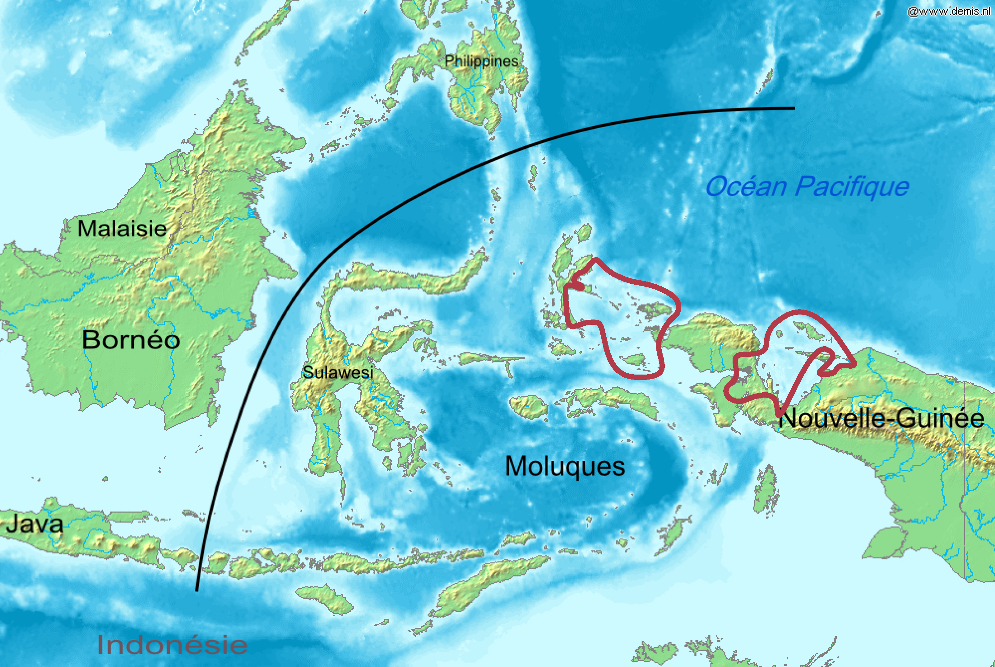 An outline of the South Halmahera-West New Guinea languages